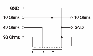 A wide band autotransformer ATU which could be used to extend the useful range of a 'normal' ATU.